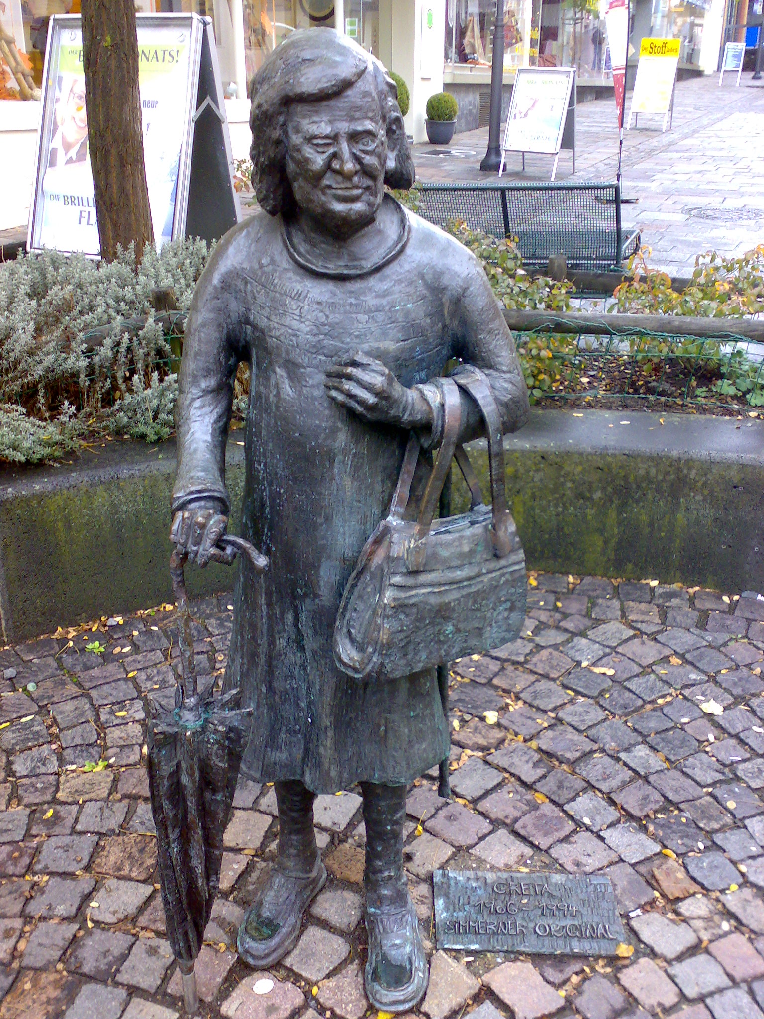 Plastik "Greta" in Simmern/ Hunsrück Germany